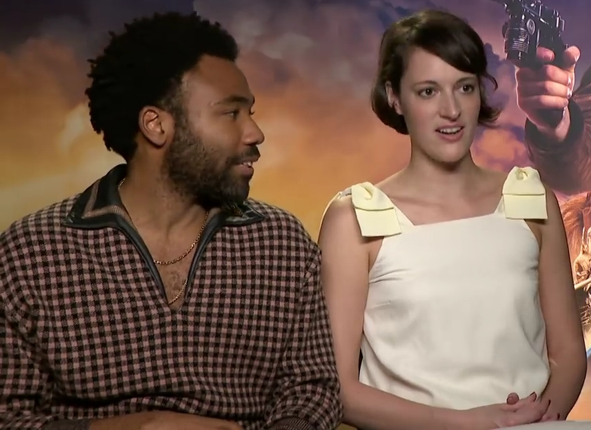 Depicted people: Phoebe Waller-Bridge and Donald Glover